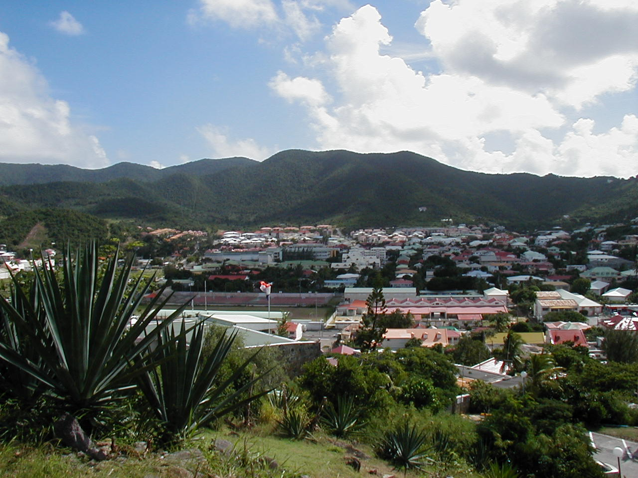 Marigot, Saint Martin in 2004